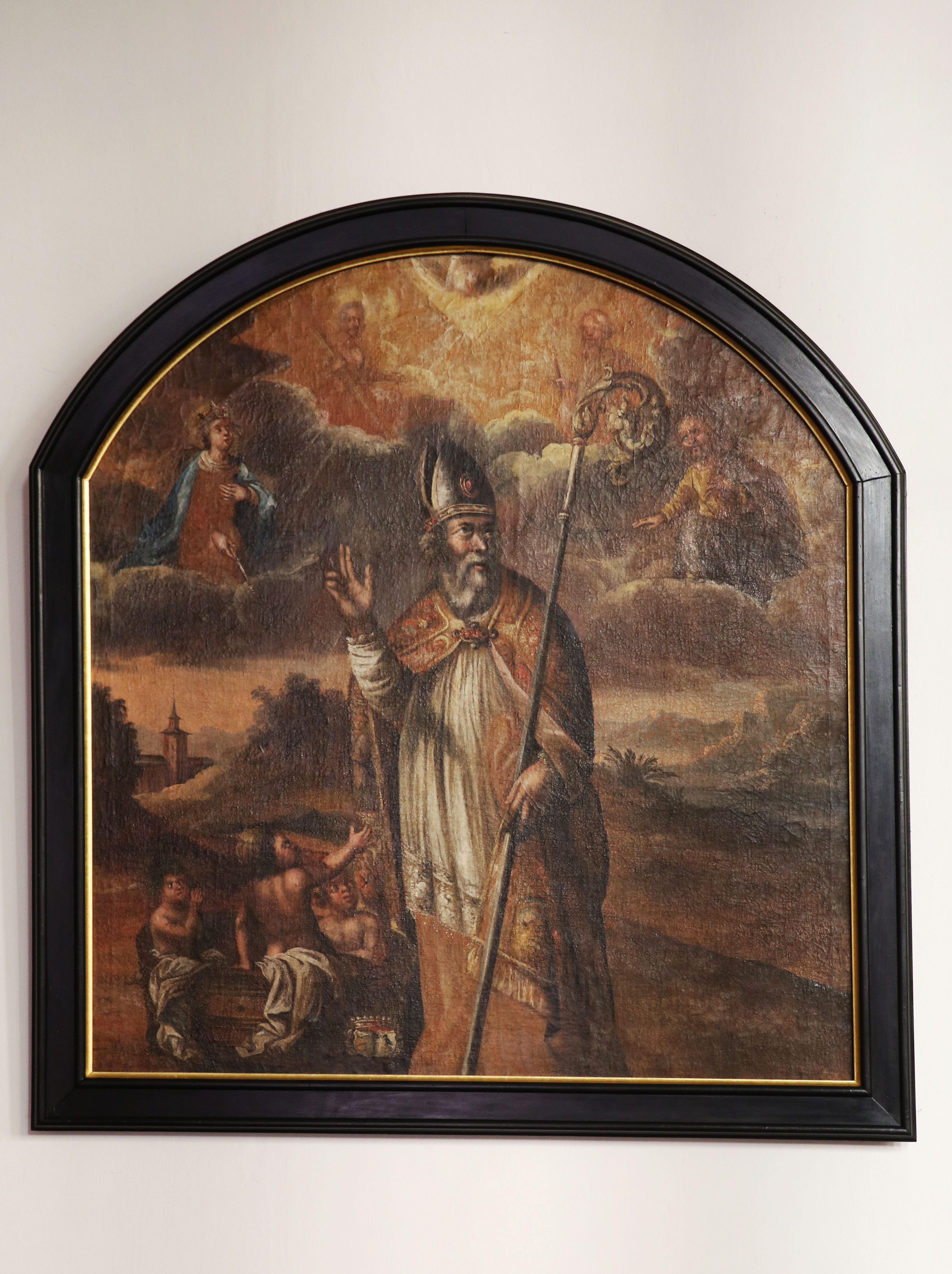 Former altarpiece of Chapel St. Nikolaus in Sechtem, Straßburger Straße